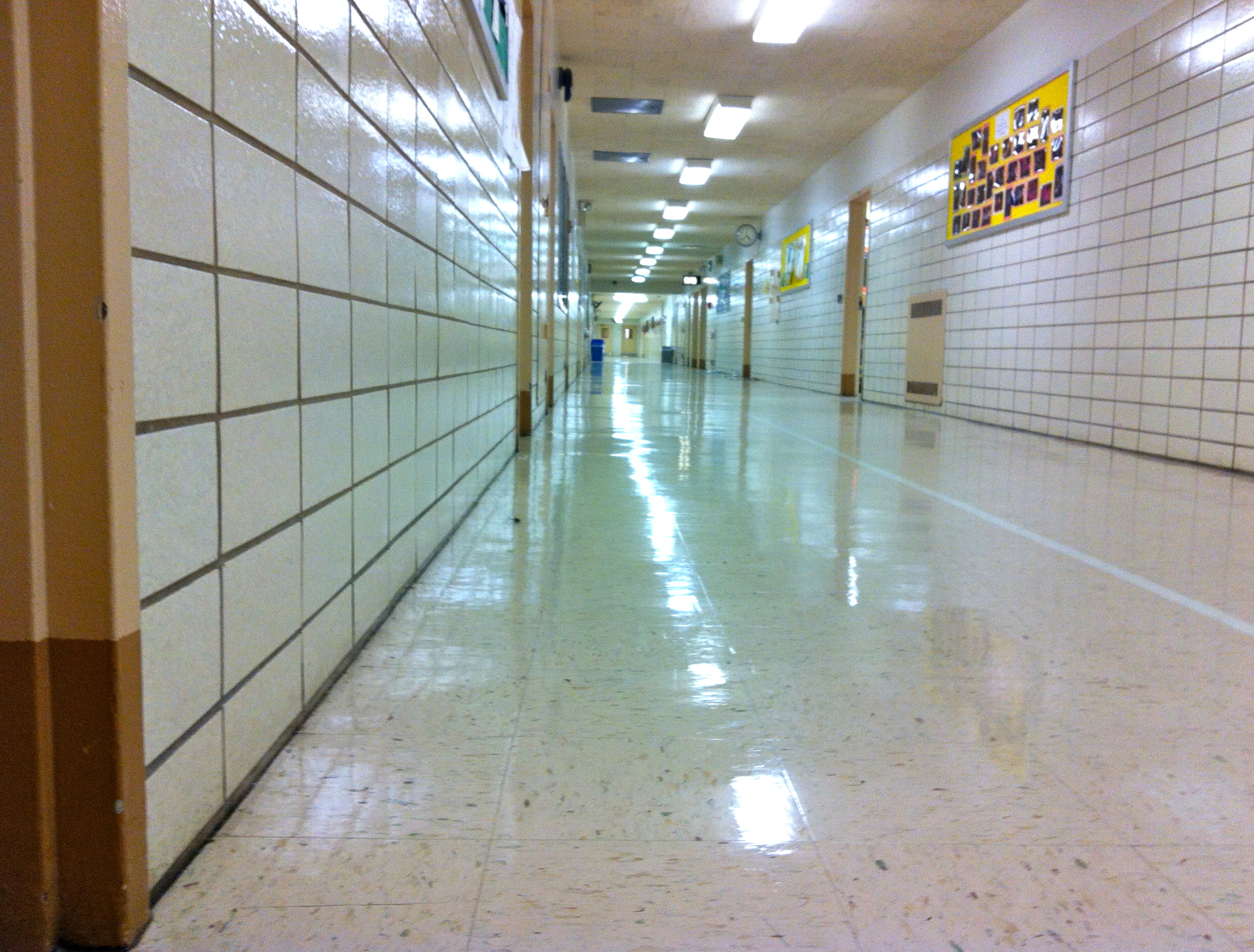 A hallway on the first floor of the the building that occupies The Bronx High School of Science.